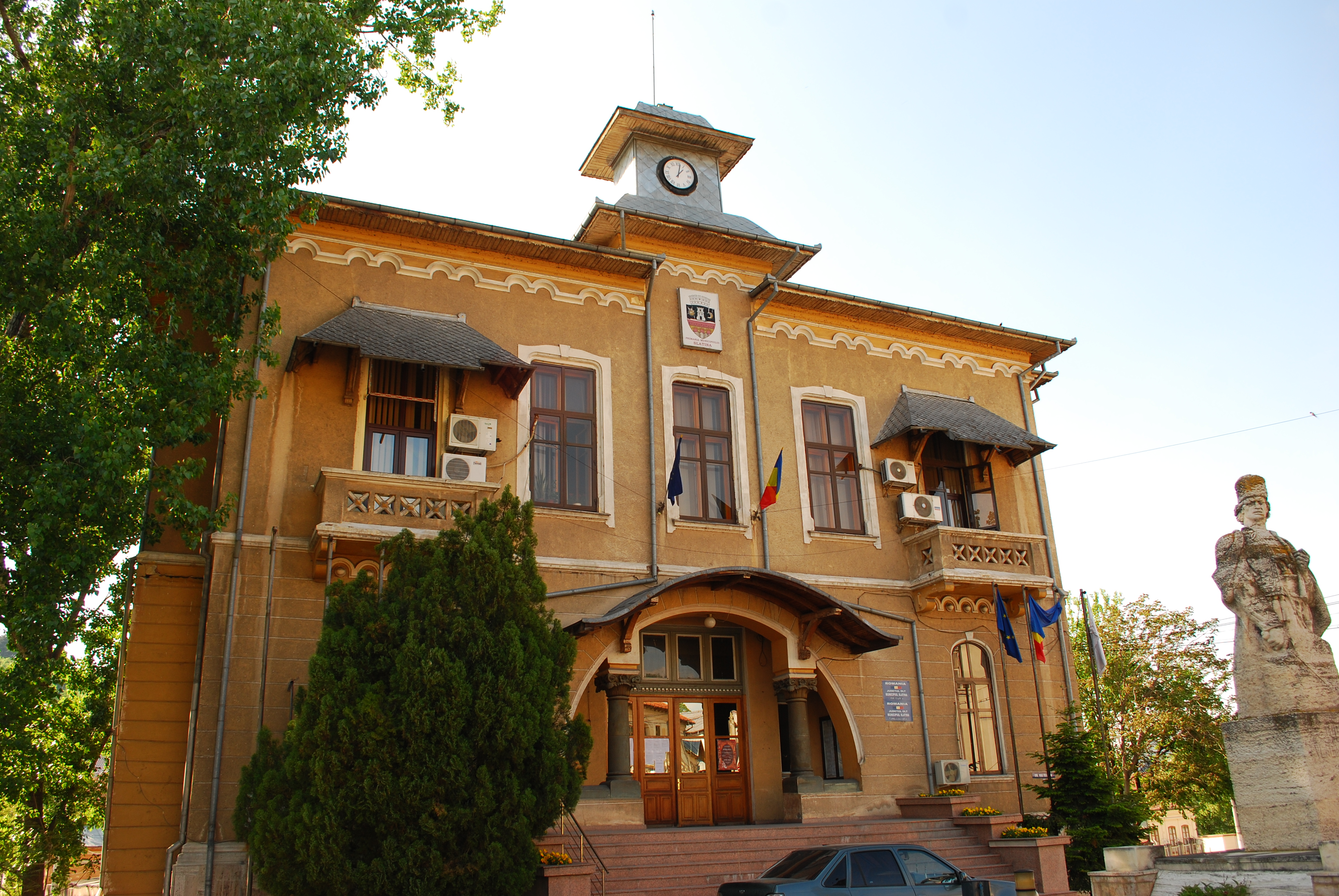 The city hall in Slatina, Olt County, RomaniaRomână: Primăria municipiului Slatina, judeţul Olt, România